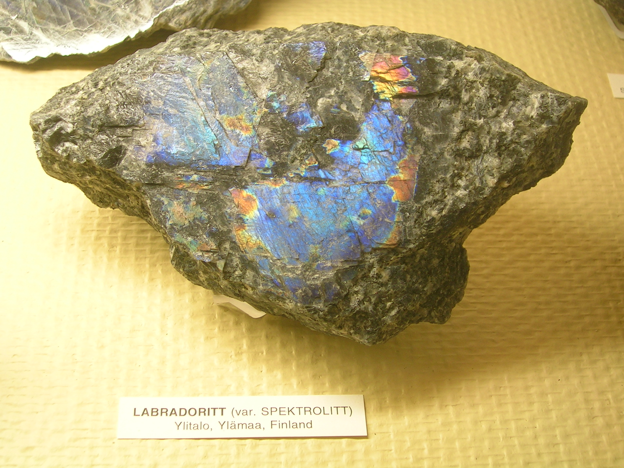 Labradorite variety Spectrolite from Oslo Museum.